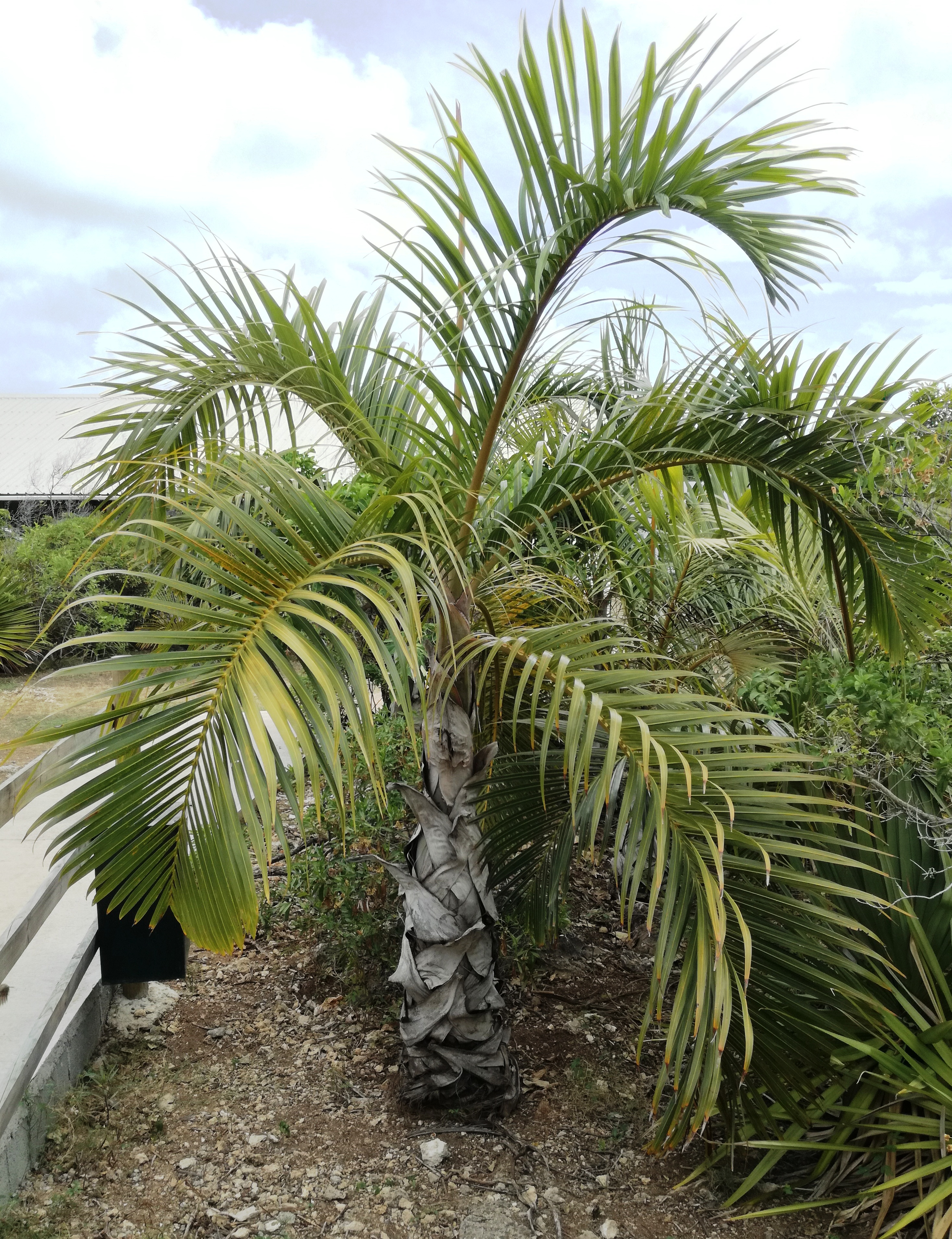 Foliage of young Hyophorbe verschaffeltii - Francois Leguat Rodrigues